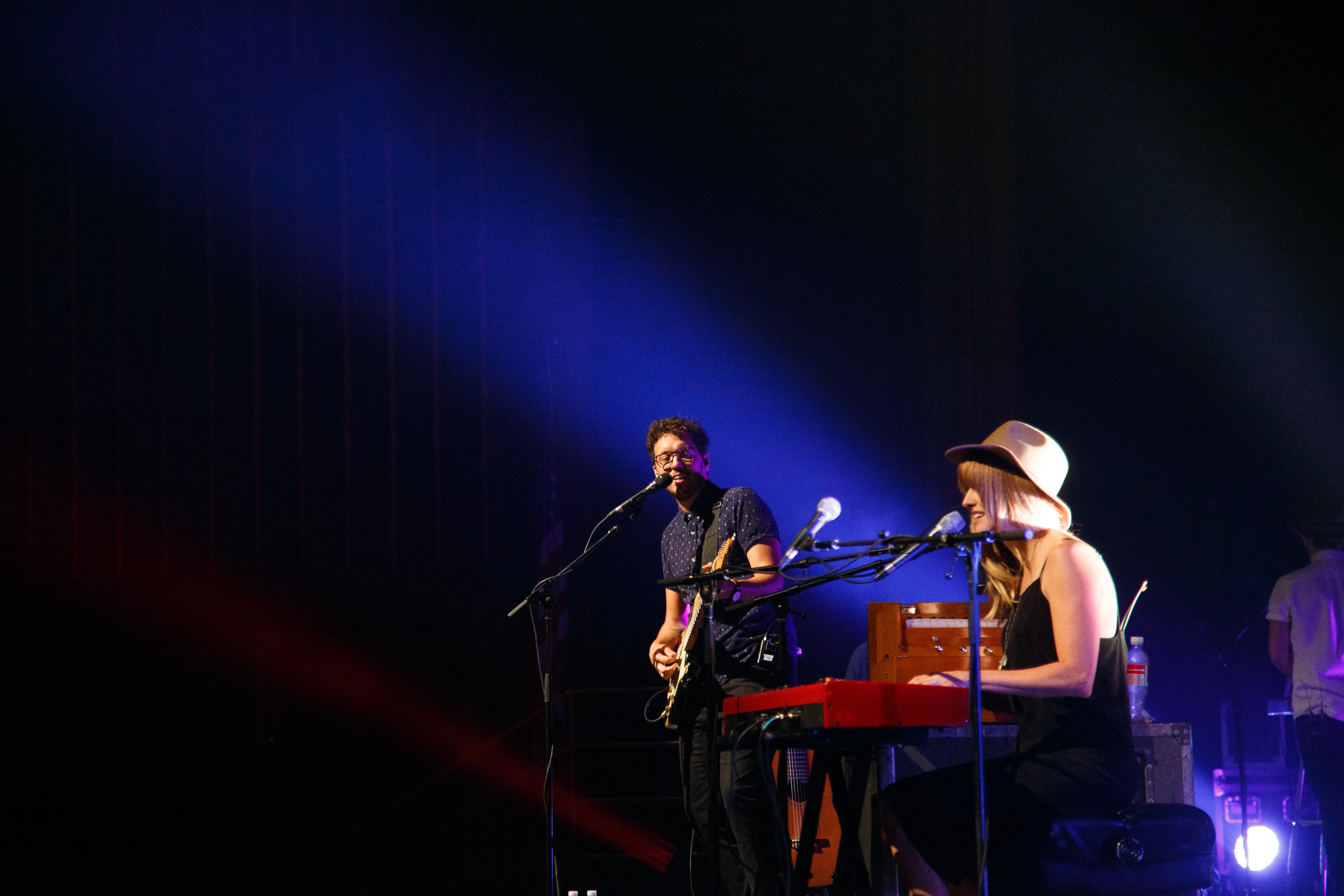 Gungor performing live in August 2015, featuring Michael and Lisa, as well as two drummers, a three-piece strings set, the bassist from BØRNS, and a lead guitarist.